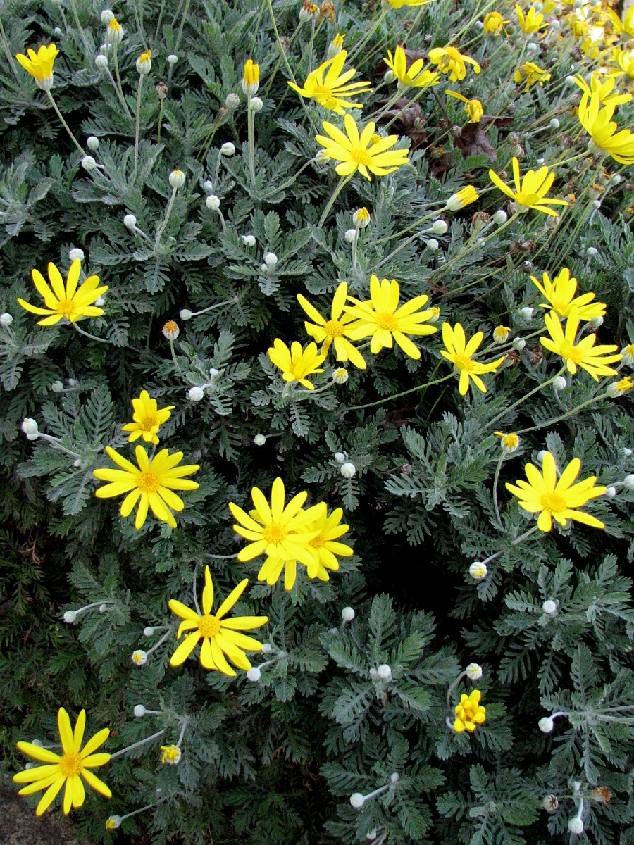 Common as dirt in the nursery trade, this gray leafed original form of the species I think helps prevent this plant from becoming a complete cliché (unlike the apparently more favored green leafed form usually offered).